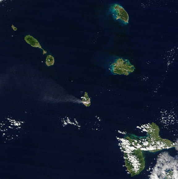 True-color image of the eruption of Soufriere Hills volcano, Montserrat, by the Moderate Resolution Imaging Spectroradiometer (MODIS) aboard the Terra satellite on 27 Dec. 2002.